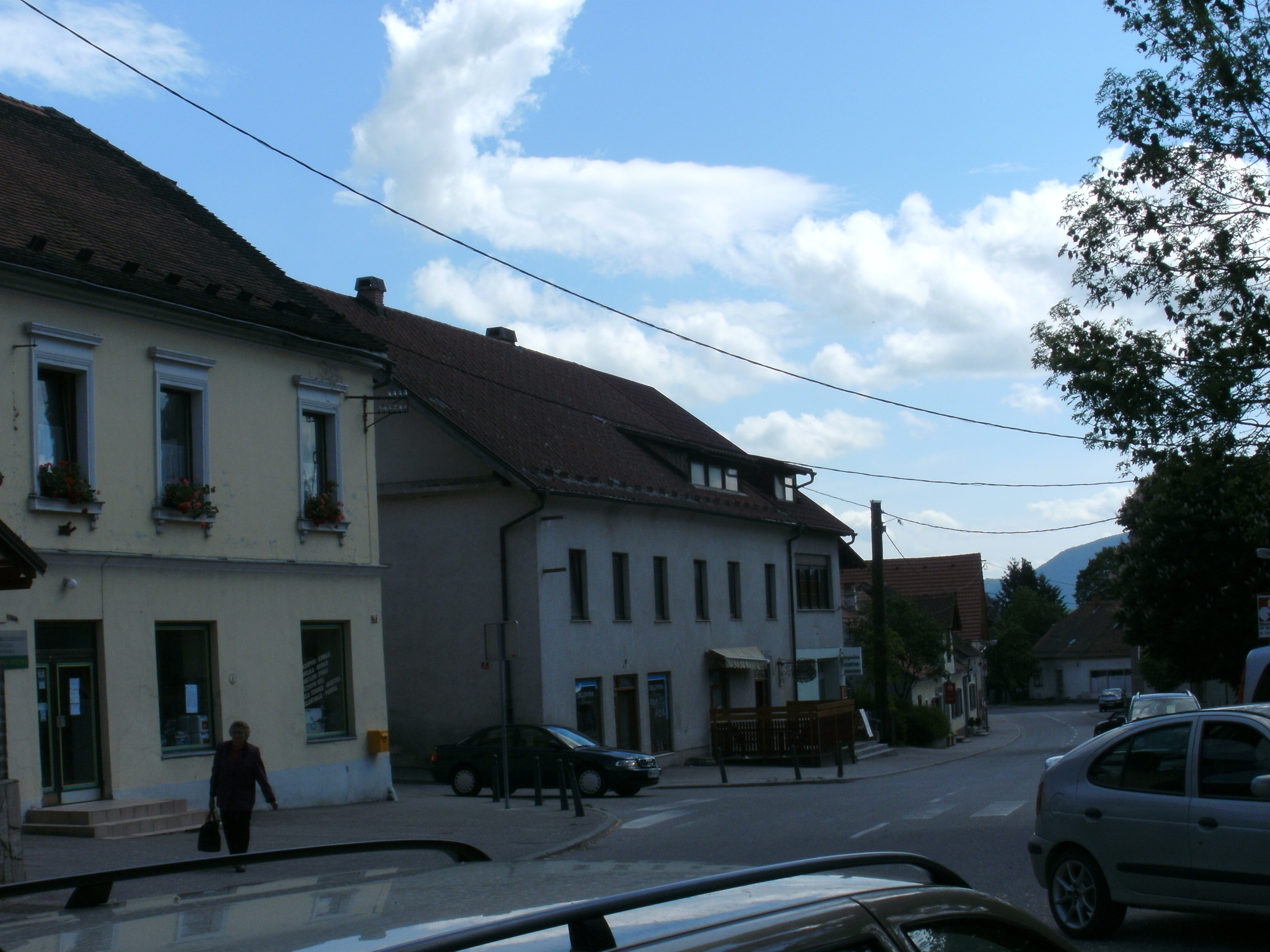 Oplotnica,town, Slovenia